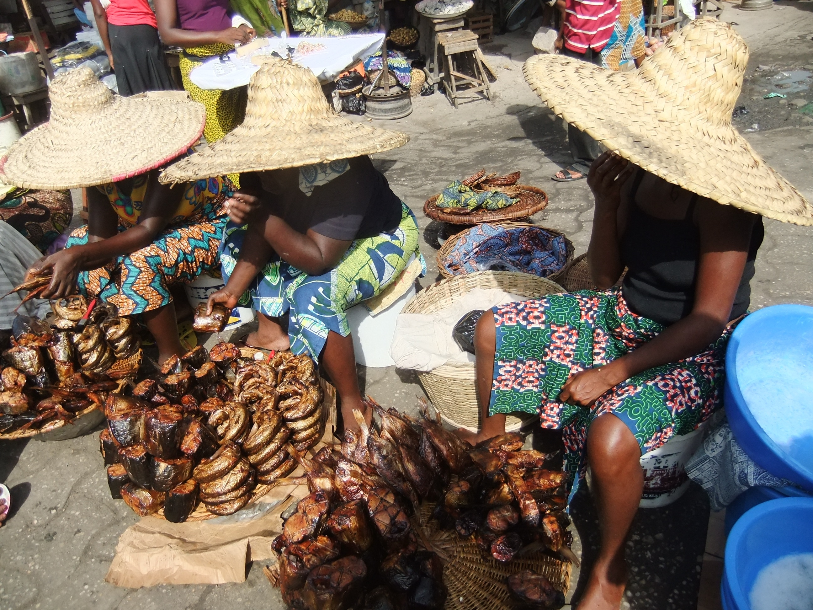 Cotonou, Benin This is an image of "African people at work" from Benin